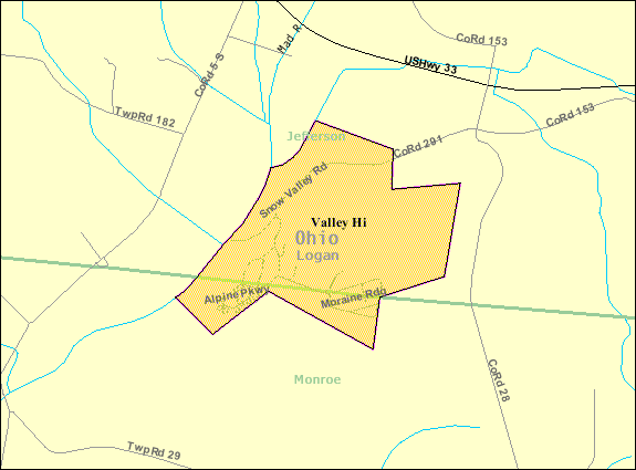 Map of Valley Hi, a village in Logan County, Ohio, United States, with its boundaries at the time of the 2000 census.